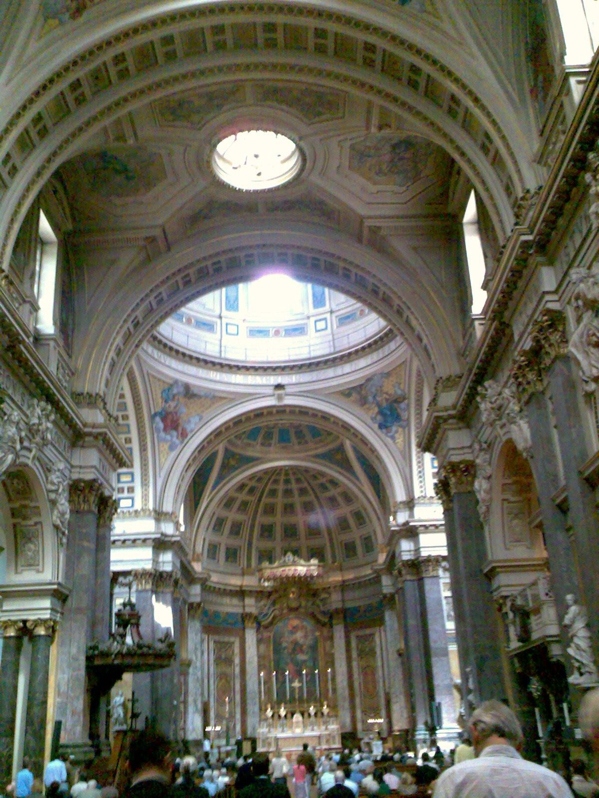 Brompton Oratory (London Oratory) Catholic Church, photograph by mintchocicecream taken on 20 May 2007.